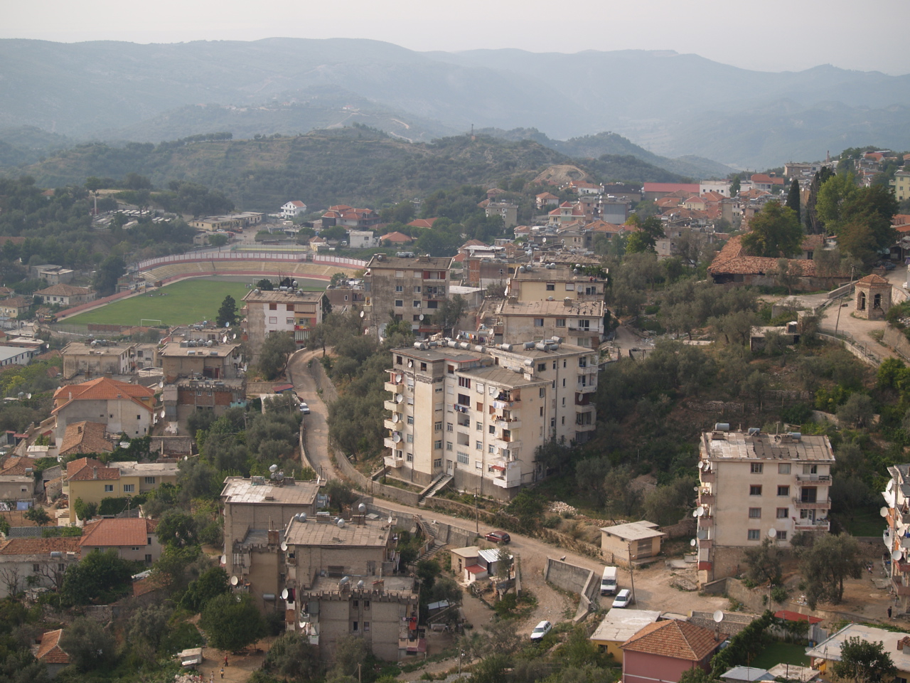 Kruja, Albania: Lower area of town with Kastrioti Stadium